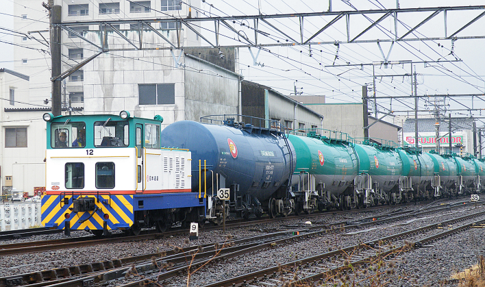 25t switcher of Cosmo oil corporation at Yokkaichi Sta., Mie, Japan.